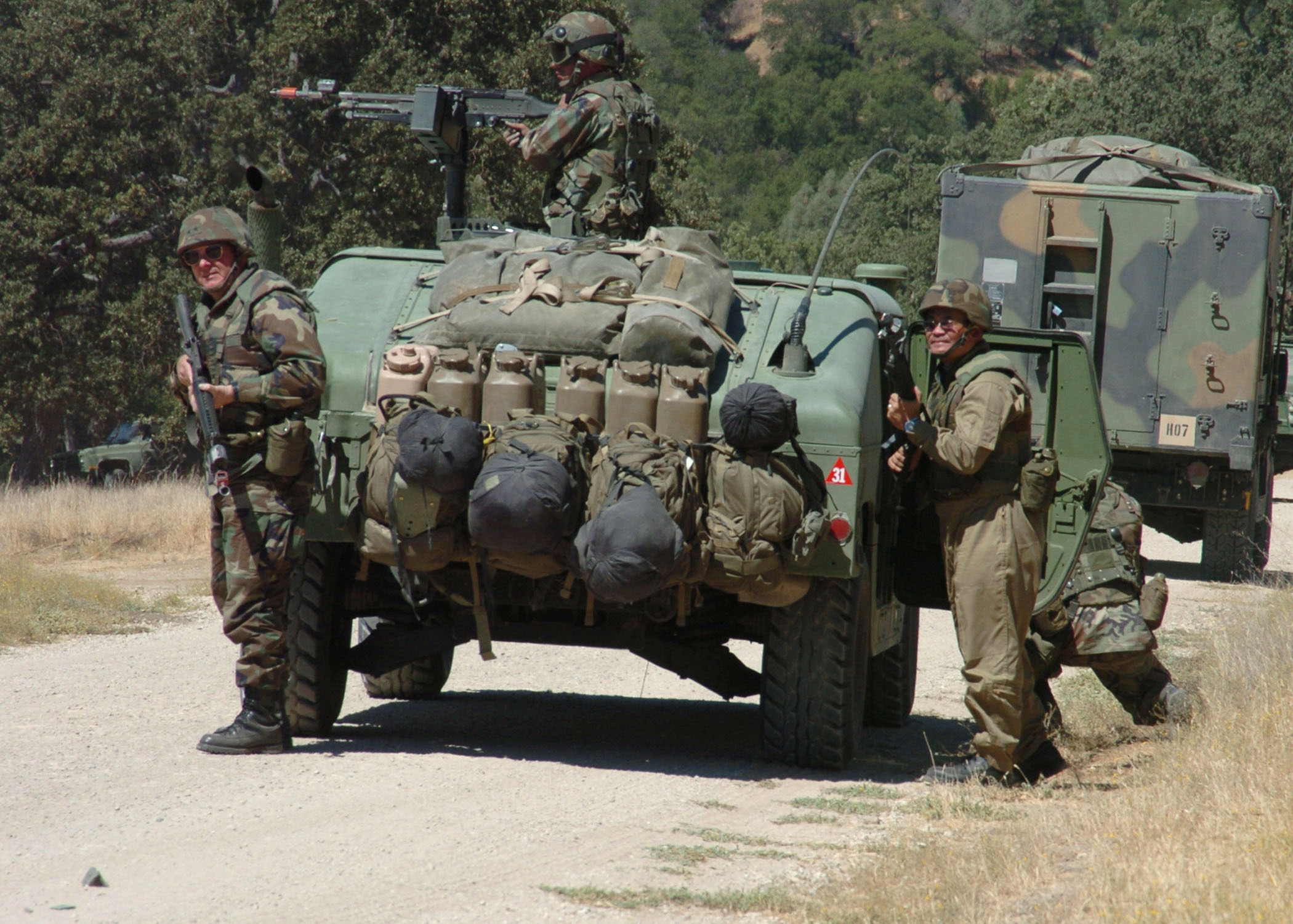 Hunter Liggett, Calif. (Sept. 2, 2004) - Philippine Navy Commodore Margarinto Sanchez Jr., right, and Commander 1st Naval Construction Division, Rear Adm. Charles Kubic, left, brace for ambush fire while convoying into a field exercise training area. The Commanders cover the area’s perimeter as a gunner scans the area for enemy attack at the Fort Hunter Liggett training area. U.S. Navy photo by Journalist 1st Class Scott Sutherland (RELEASED)